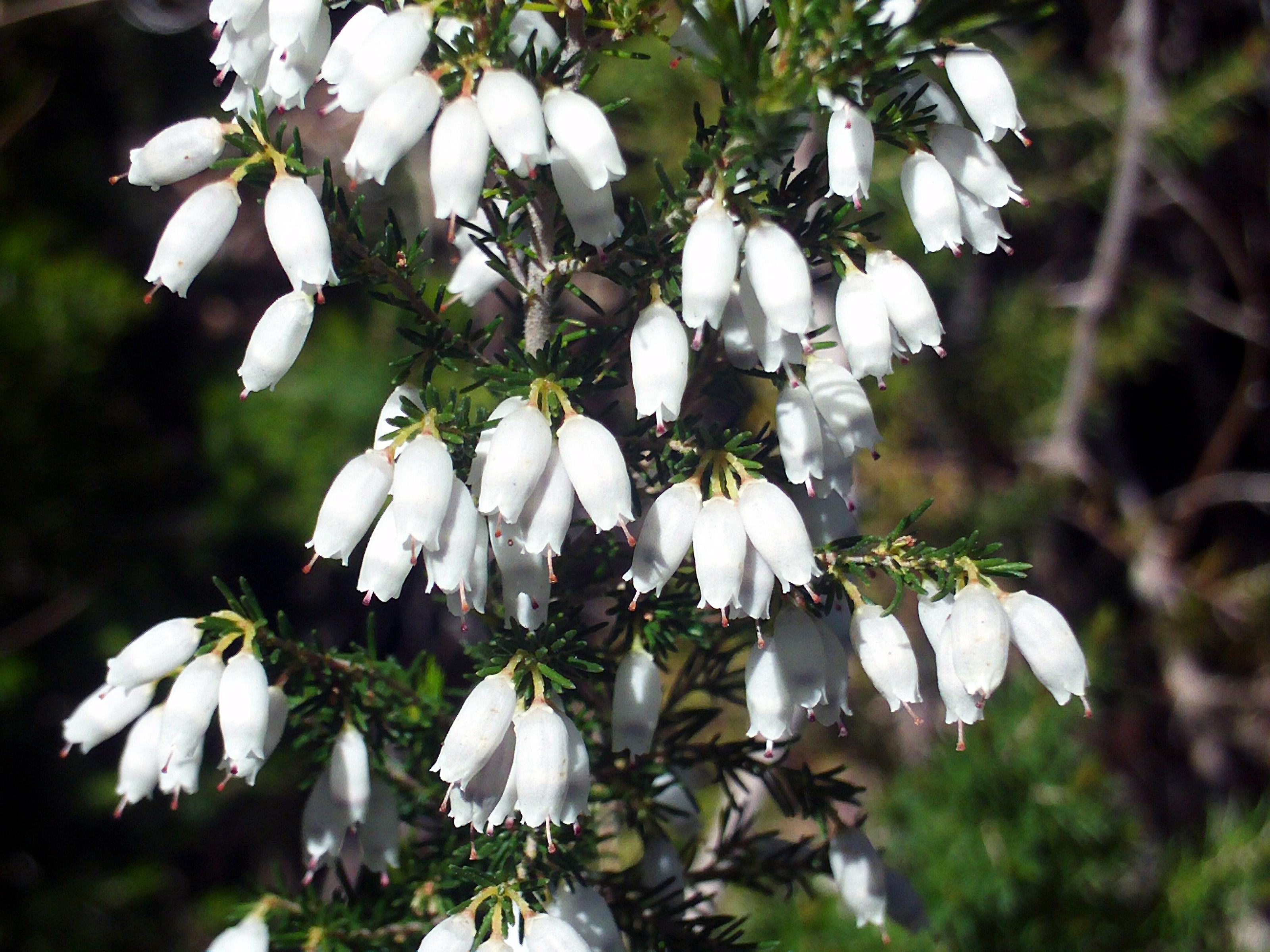 Erica arborea flowers close up, Sierra Madrona, Spain